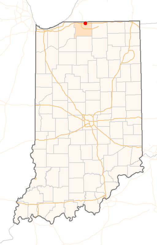 Red Dot map of Indiana, showing the location of Georgetown,_St._Joseph_County